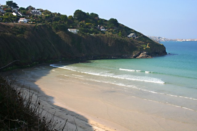 Carrack Gladden This is the headland to the east of Carbis Bay.